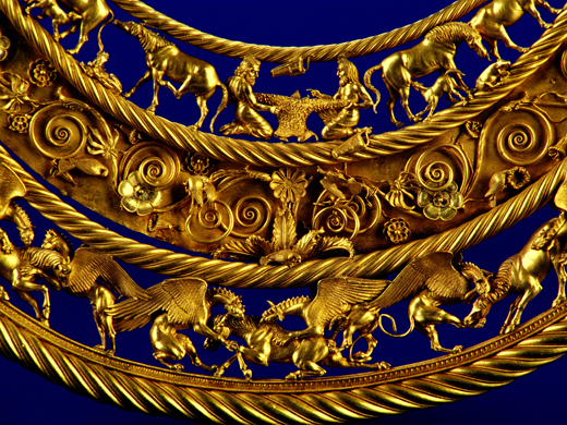 Gold Scythian pectoral, or neckpiece, from a royal kurgan in Towsta Mohila, Pokrov, dated to the 2nd half of the 4th century BC. The central lower tier shows three horses, each being torn apart by two griffins.